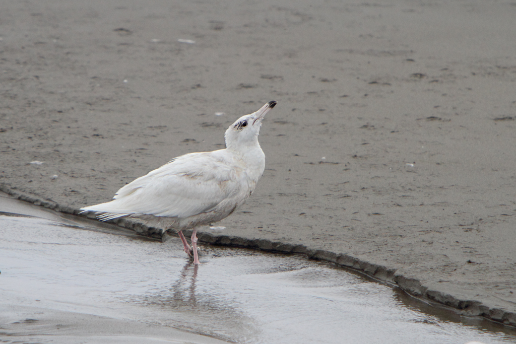 Second winter Glaucous Gull taking a drink in the fresh water run-off to the beach at the Piedras Blancas Elephant seal rookery, California. Quite a well bleached specimen, but the first Glaucous Gull I have seen.